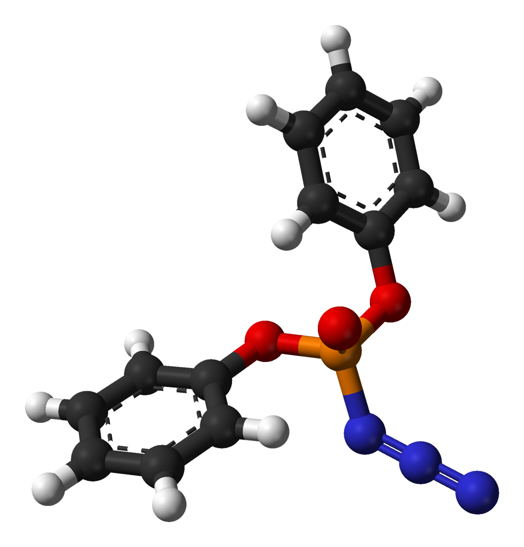 Ball-and-stick model of the diphenylphosphoryl azide (DPPA) molecule.